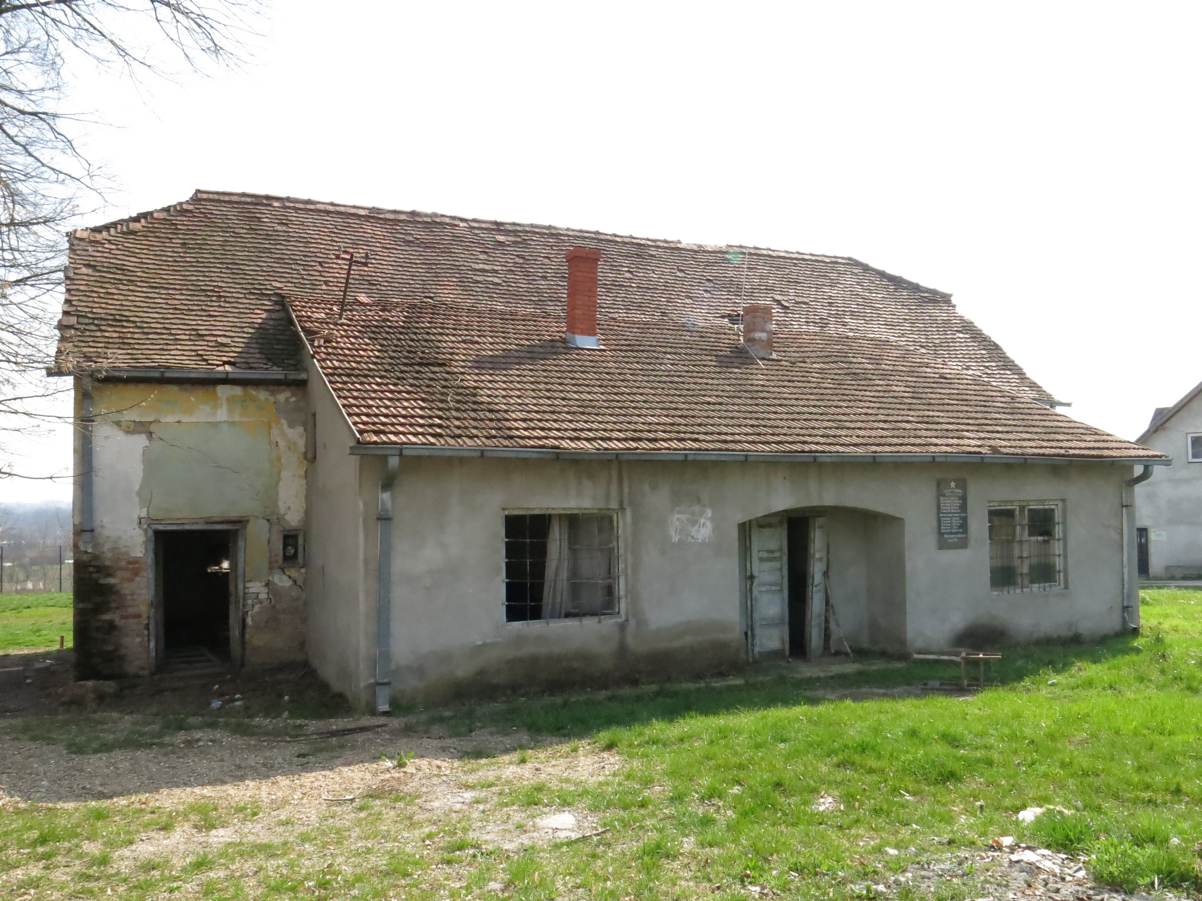 Žabar, House with the memorial plaque to the fallen warriors in World War II